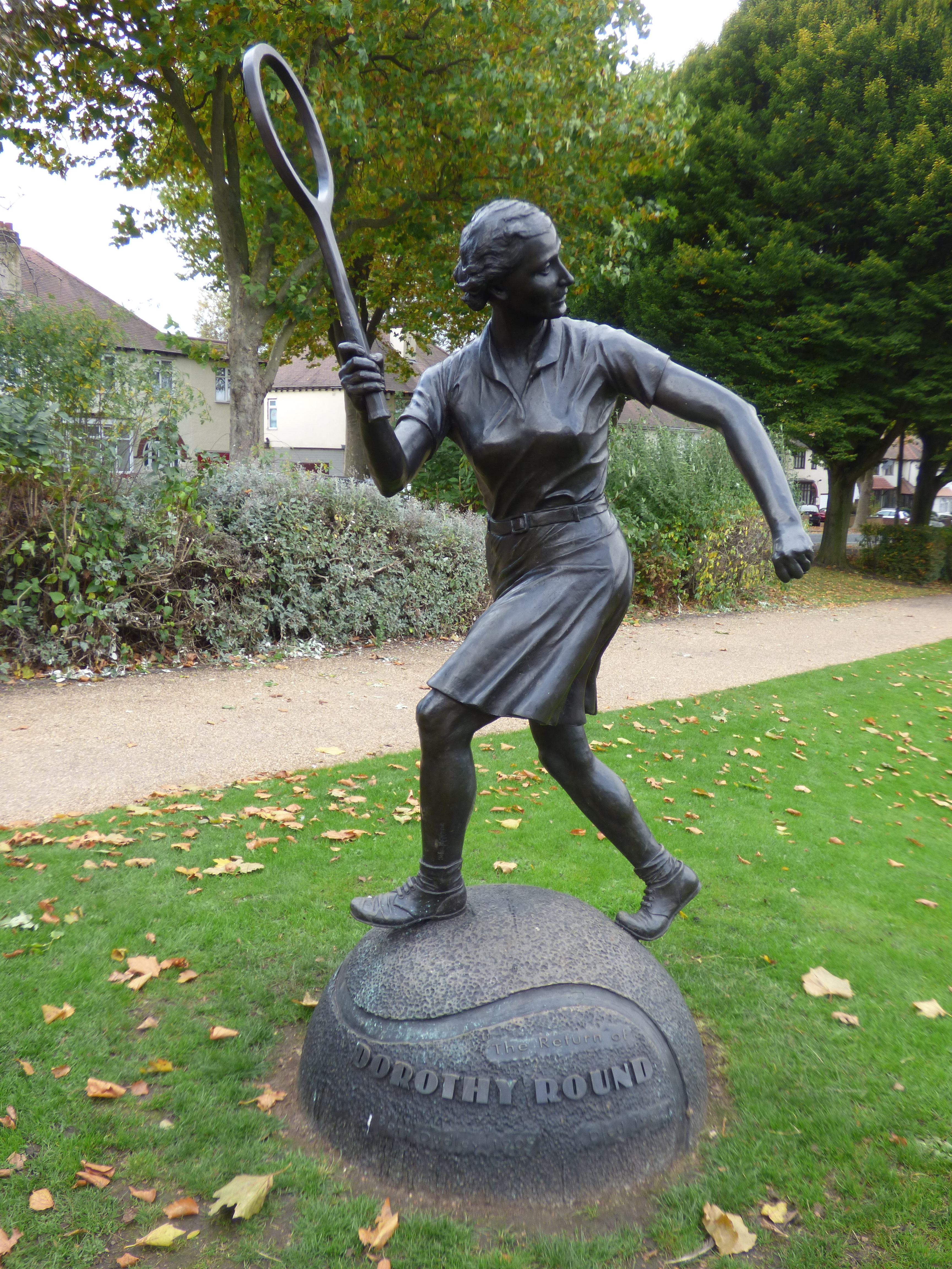 A return visit to Priory Park in Dudley. Mainly to see the Duncan Edwards blue plaque on the pavilion behind Priory Hall. From the Priory Road entrance up towards the tennis courts. Dorothy Round statue. The Return of Dorothy Round by John McKenna in 2013. She was a World No. 1 British female tennis player. Born in Dudley.